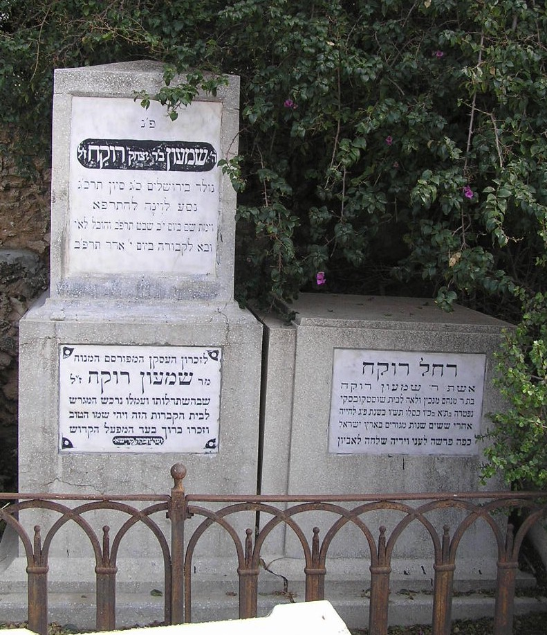 Tomb of Shimon Rokah in Trumpeldor cemetery in Tel Aviv photographed by Eman, February 2006